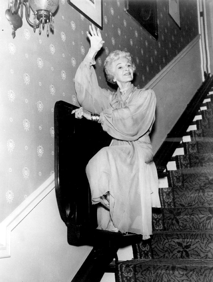 Photo of Cathleen Nesbitt as Agatha Morley, the Congressman's mother, from the television program The Farmer's Daughter.